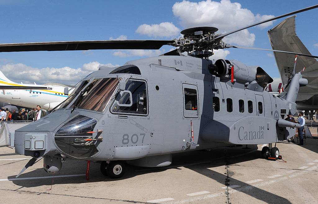 CH-148 Cyclone Helicopter